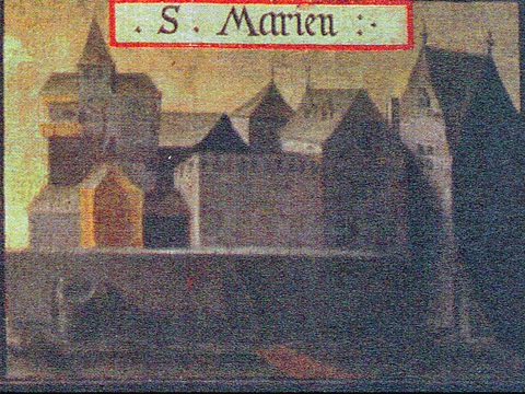 Saint Mary Monastery in 1589